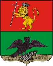 Kirzhach (Vladimir Governorate), coat of arms (1781)